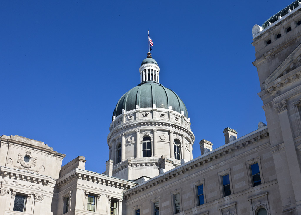 The Indiana Statehouse dome.